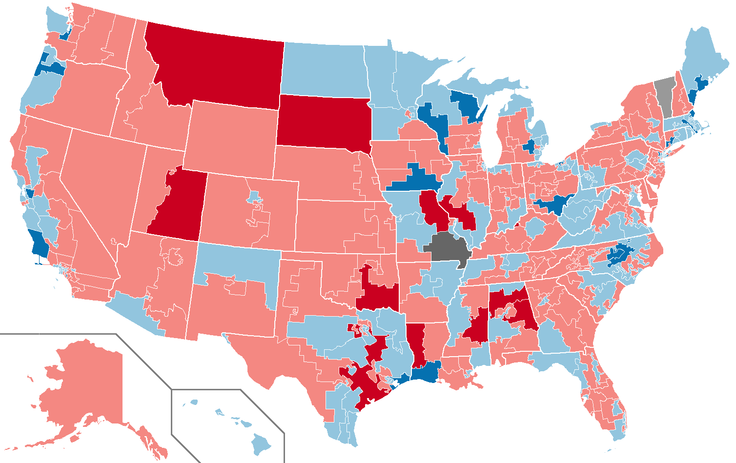 1996 House of Representatives election map Democratic hold Democratic pickup Republican hold Republican pickup Independent hold Independent pickup